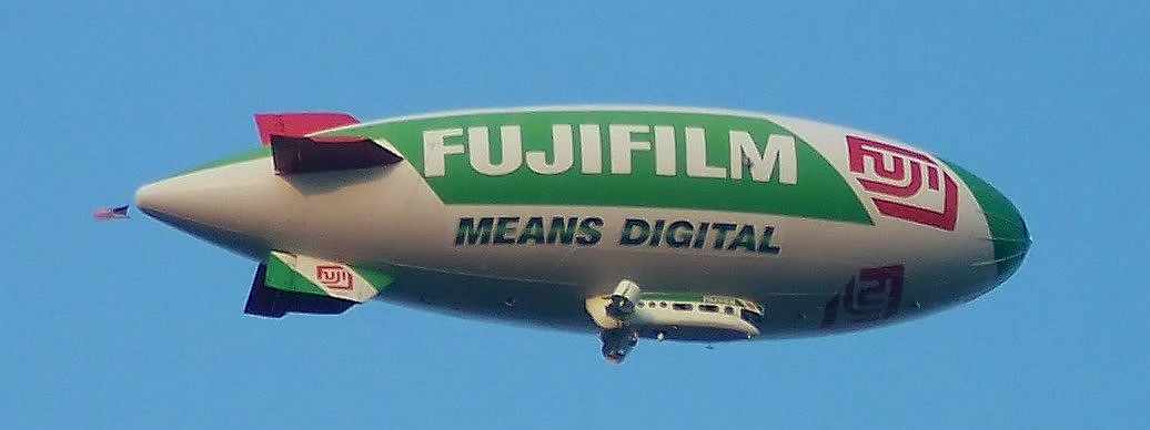 A Fujifilm-branded blimp spotted over the skies of New York City, New York, USA on July 4, 2005.